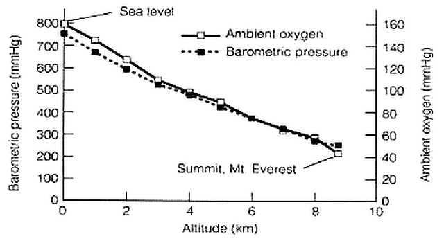 Available oxygen at Everest